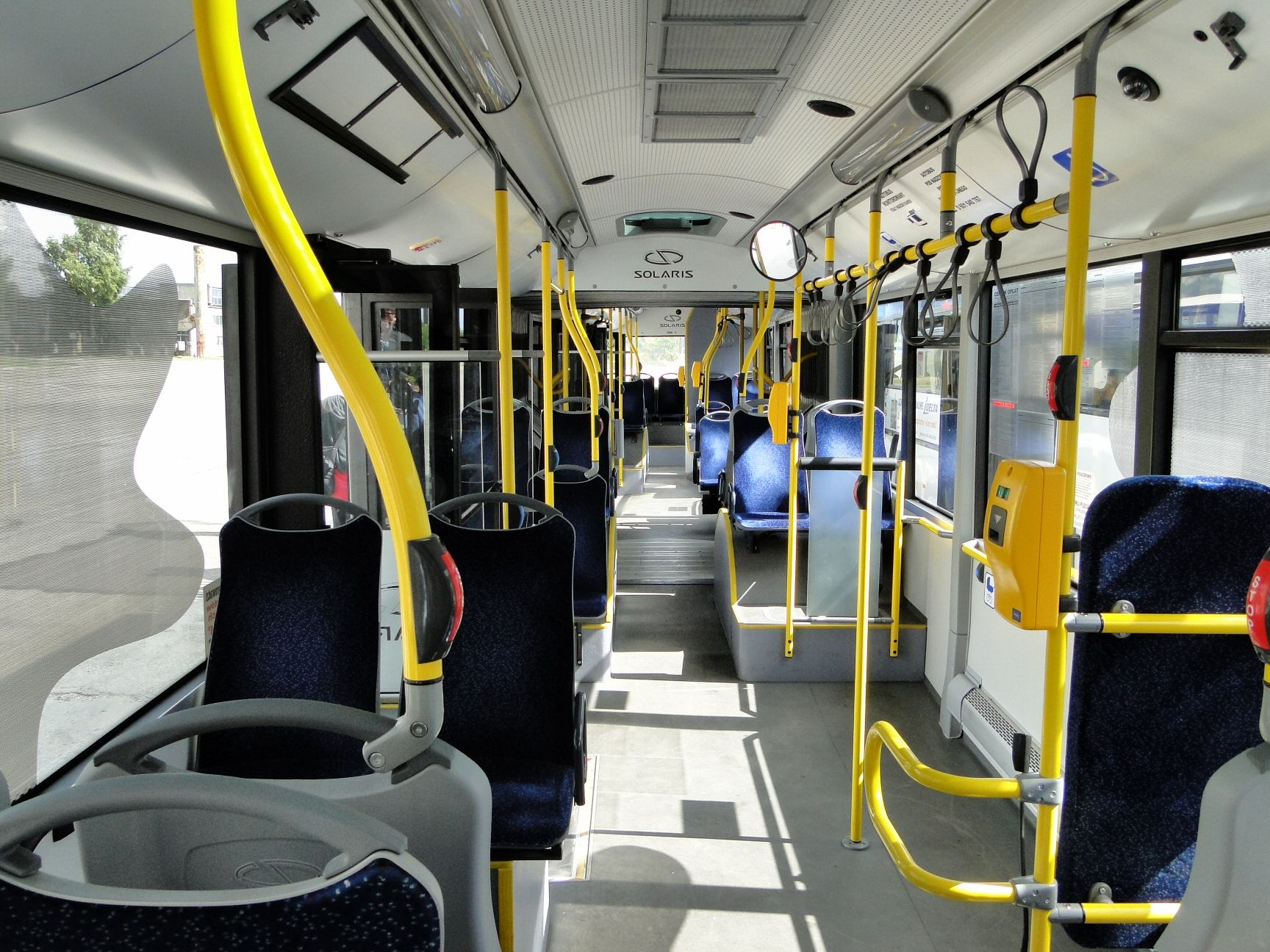 Solaris Urbino 18 city bus (#29...) interior in Szczecin, Poland. Built 2009, SPA Dąbie from Szczecin operator.